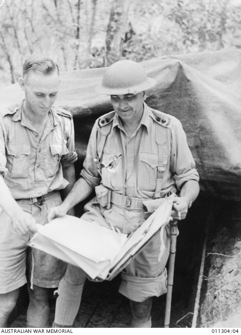 GEMAS, MALAYA. 1942. LIEUTENANT COLONEL FREDERICK G. "BLACK JACK" GALLEGHAN, COMMANDING OFFICER 2/30TH BATTALION (RIGHT), EXAMINING A MAP WITH SERGEANT HECKENDORF (LEFT), INTELLIGENCE SERGEANT, OUTSIDE THE BATTALION COMMAND POST.